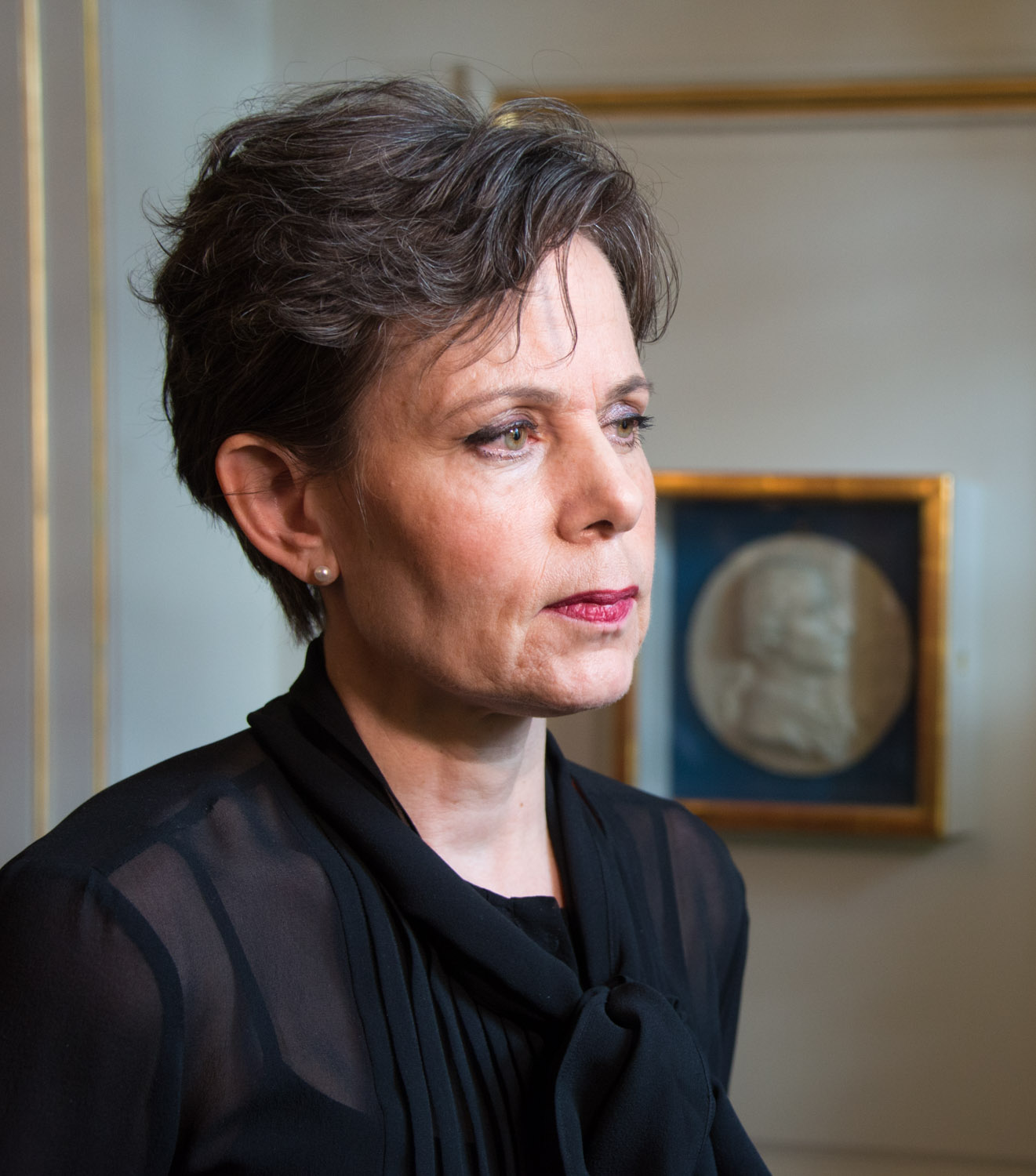 The Nobel Prize in Literature announced in Stockholm October 8, 2015 by the Permanent Secretary Sara Danius.